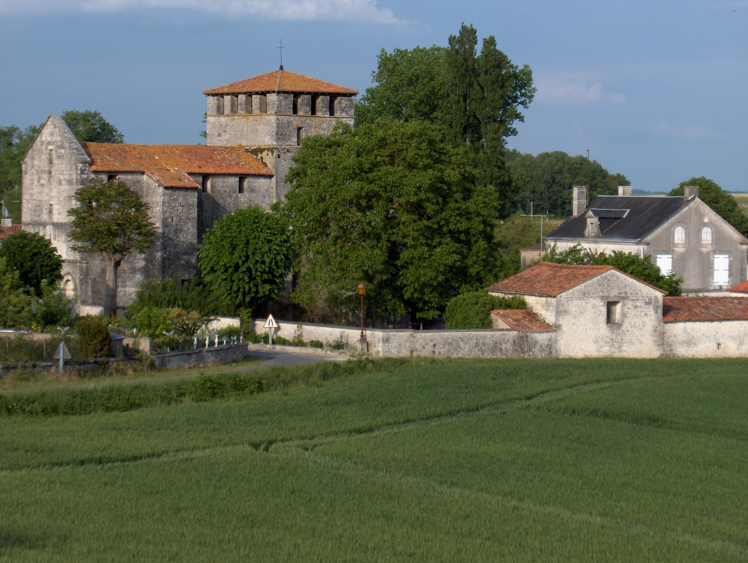 Voulgezac - Charente - France